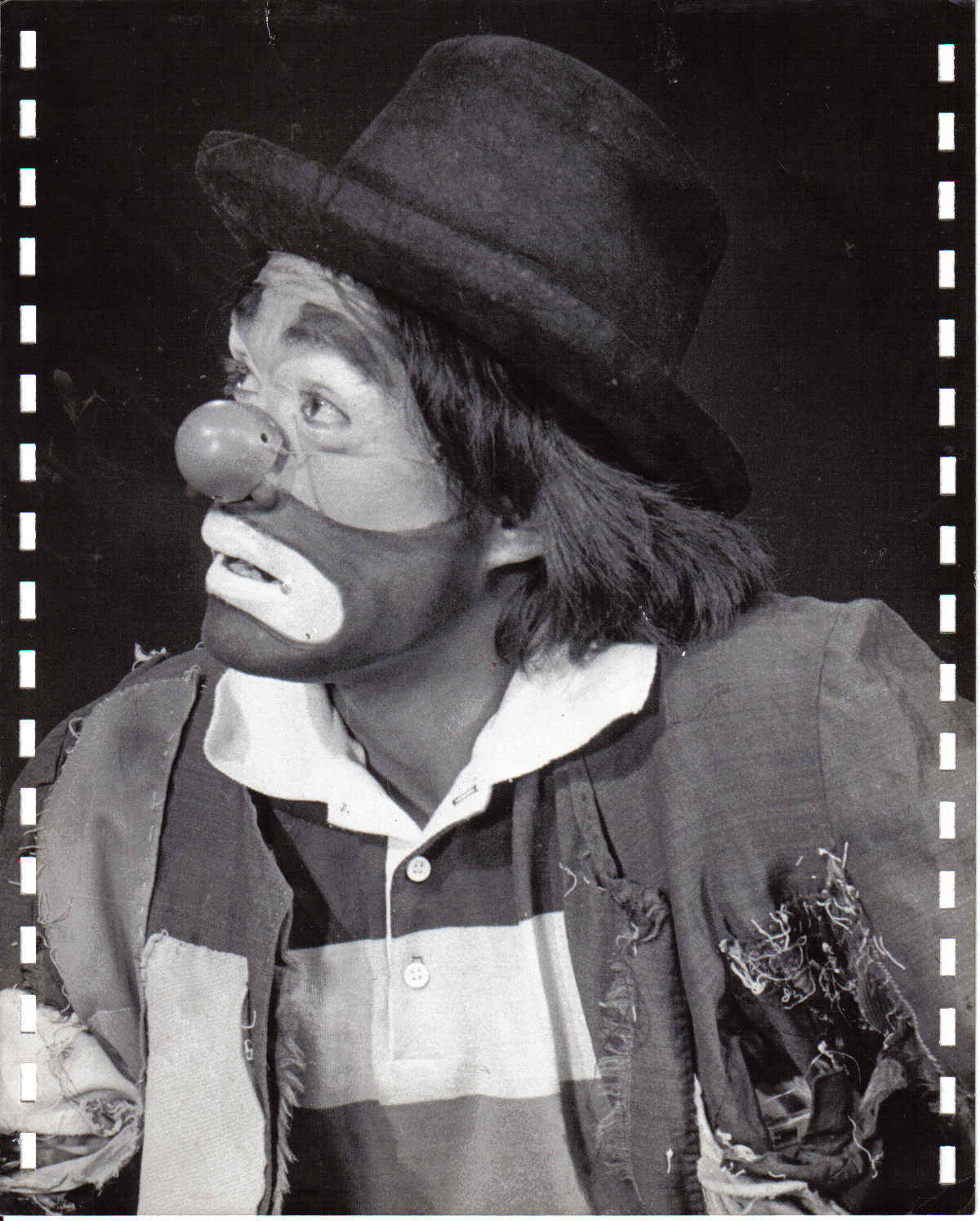 Chuchin The Clown looking sad